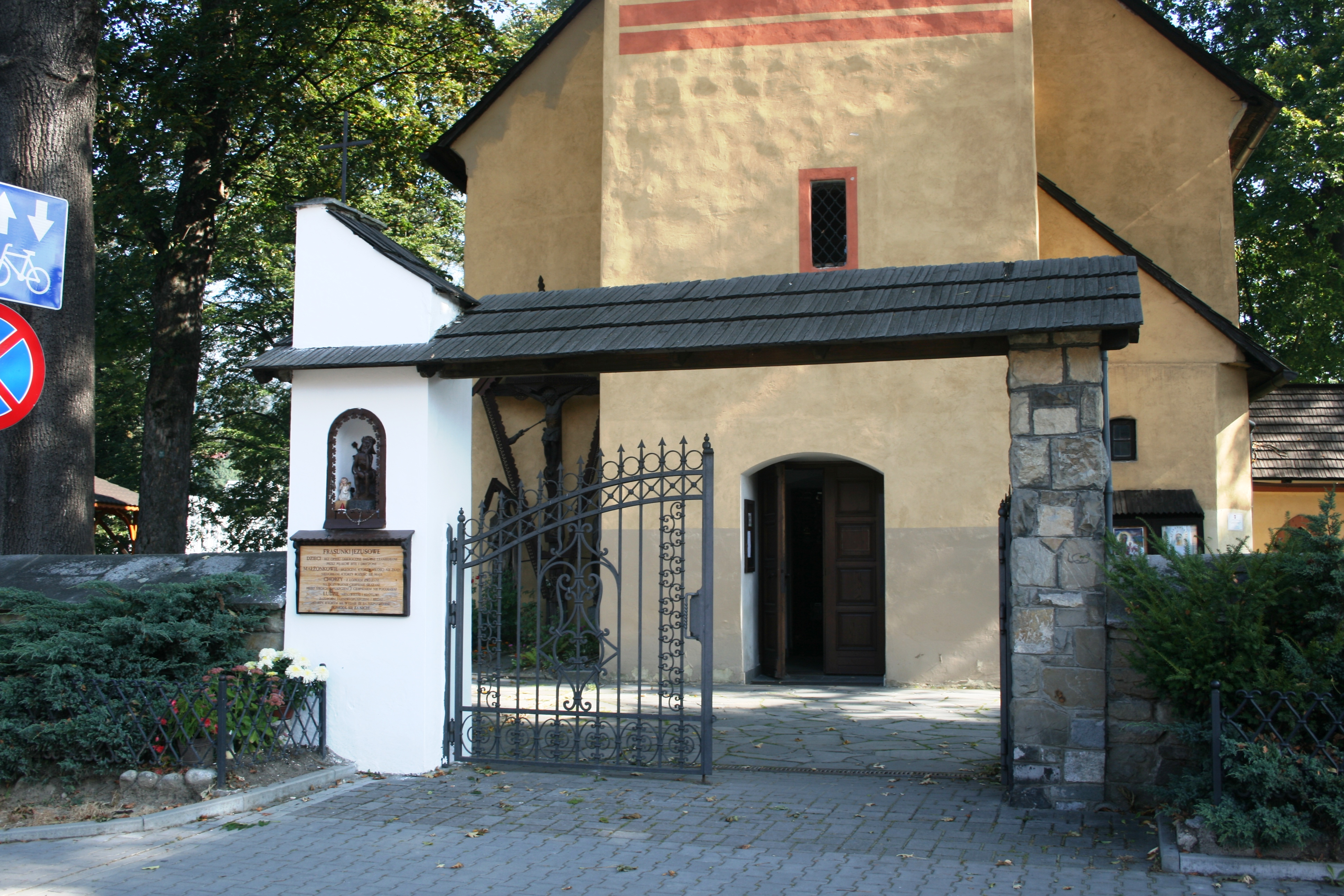 All Saints Church in Krościenko nad Dunajcem (Poland) – gate